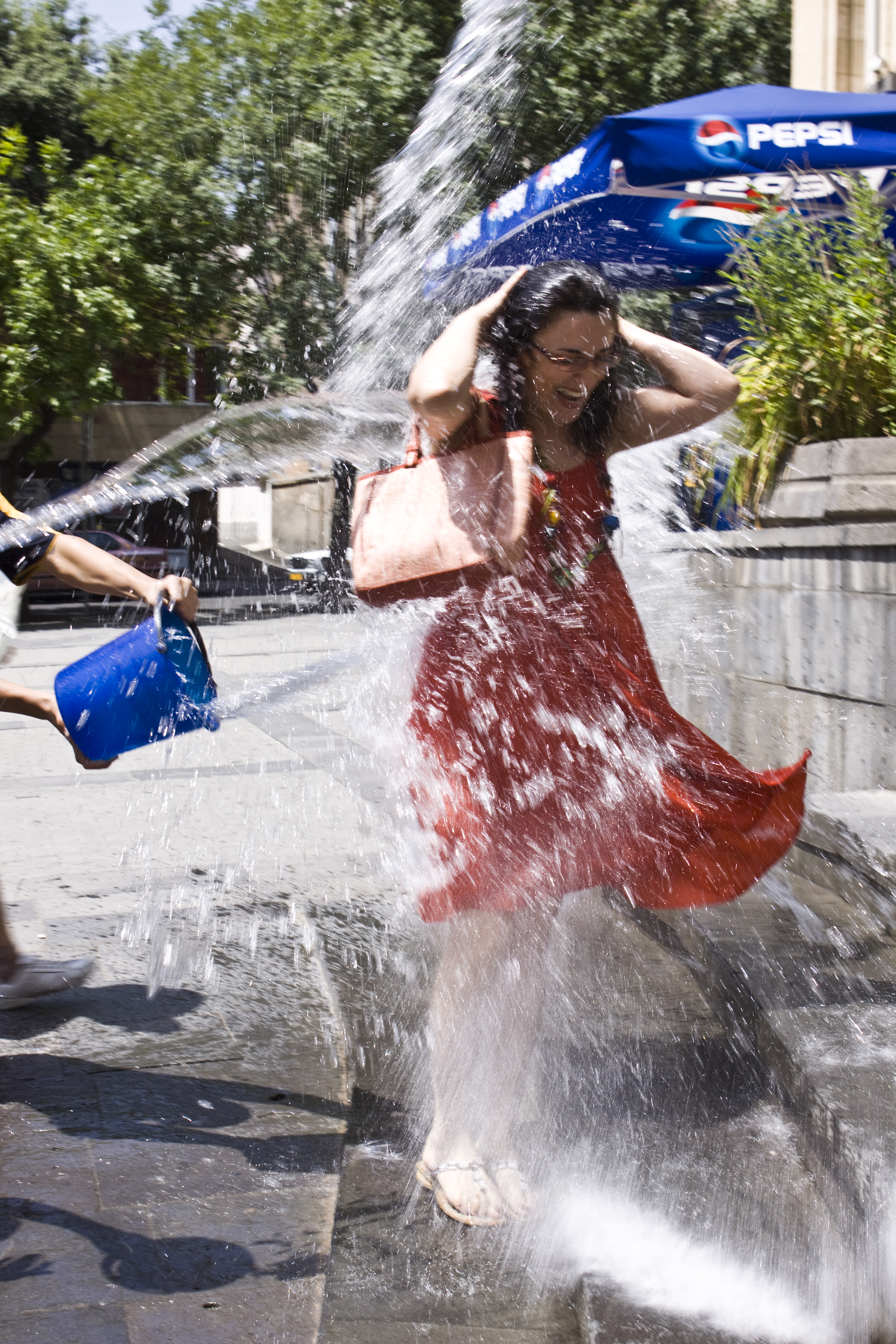 Vartavar